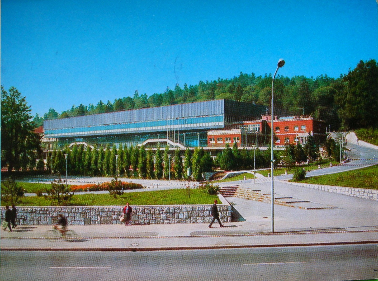 Postcard of Tivoli Hall 1966.